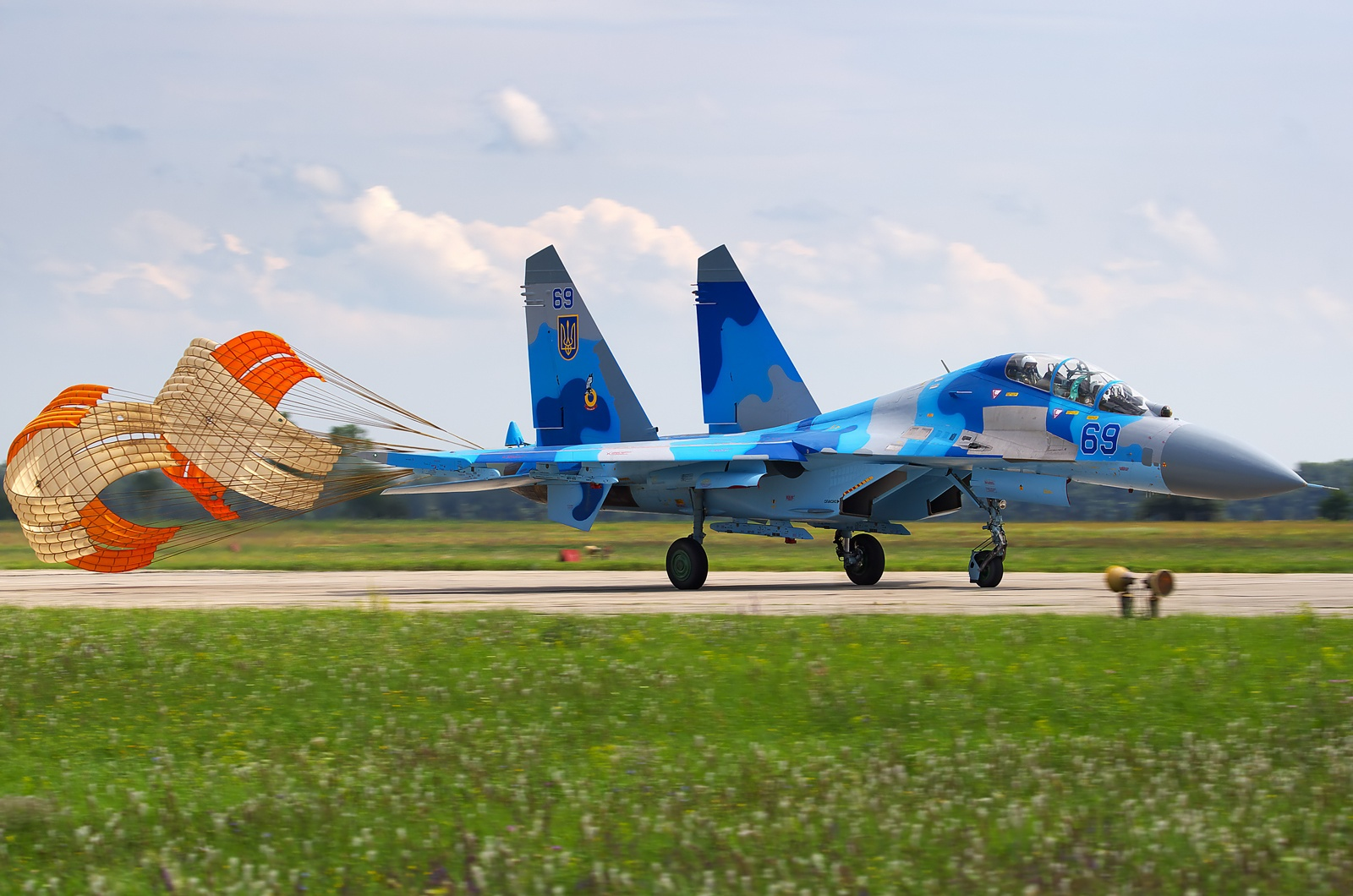 A Sukhoi Su-27UB of the Ukrainian Air Force during the 'Safe Skies-2011', the tripartite joint military exercises of Ukrainian, US and Polish air forces.